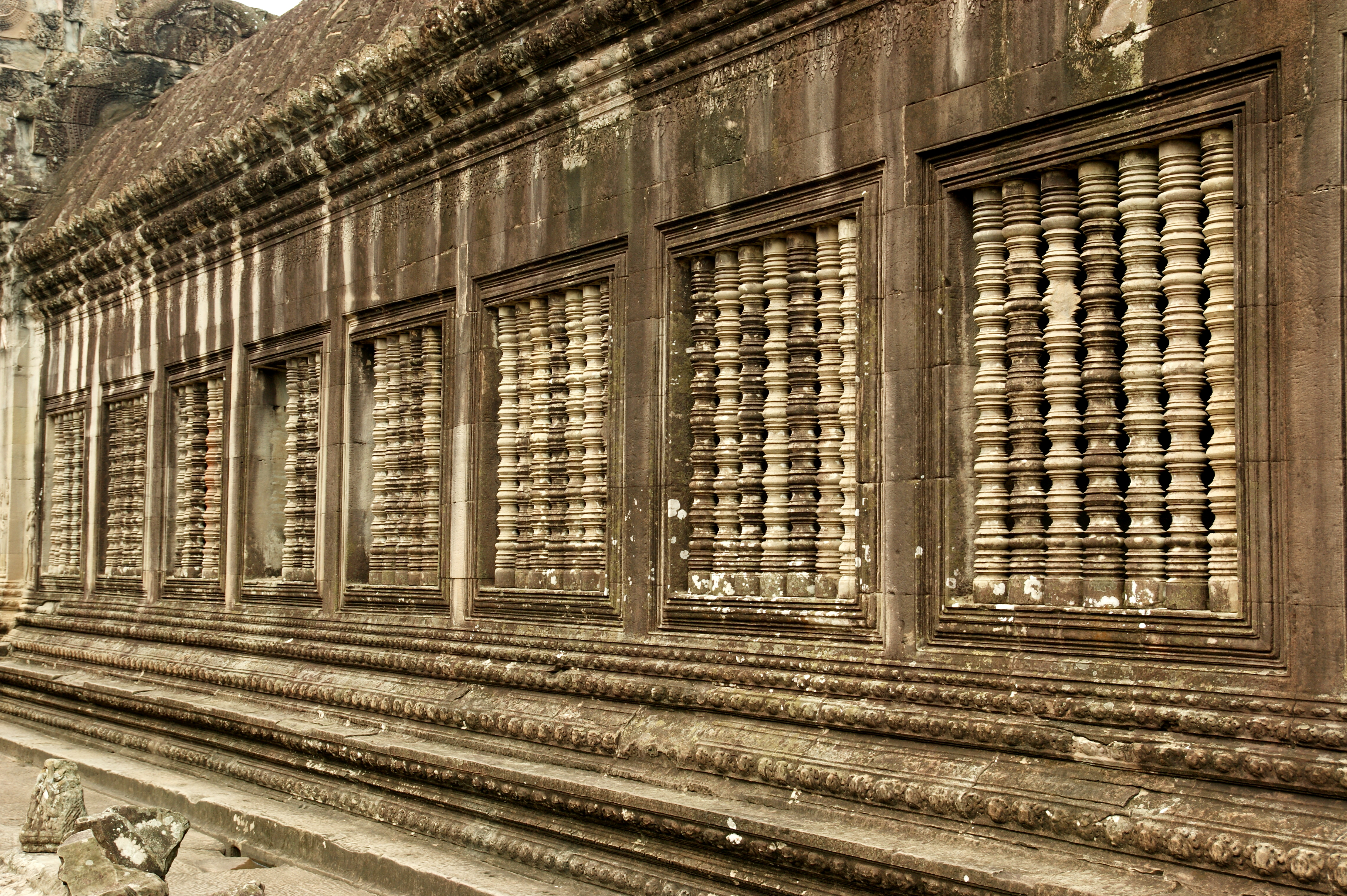 Finely carved reliefs at the Angkor Wat temple in Siem Reap, Cambodia.